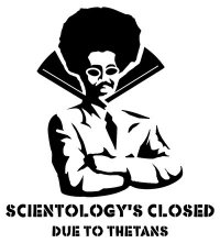 Anonymous Icon Symbolic of the Project Chanology